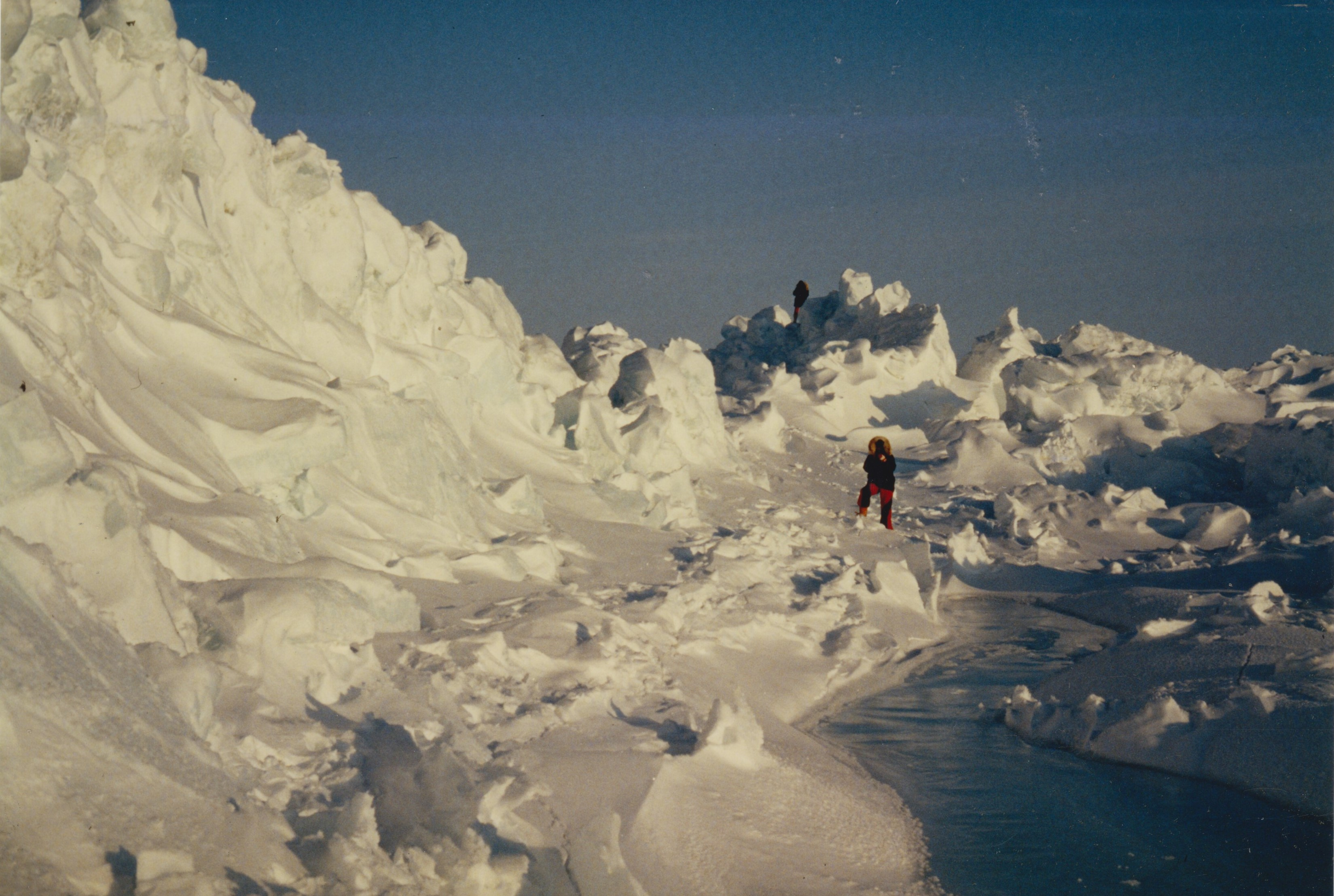 Foto taken April 18, 1990 during expedition to North Pole of JLU University Giessen organized by L.King @JLU.de